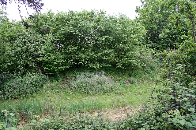 The moat of Hanley Castle A rather sad looking sight for what was the heart of the community 8oo to 600 years ago, but no doubt, excellent for the wildlife.